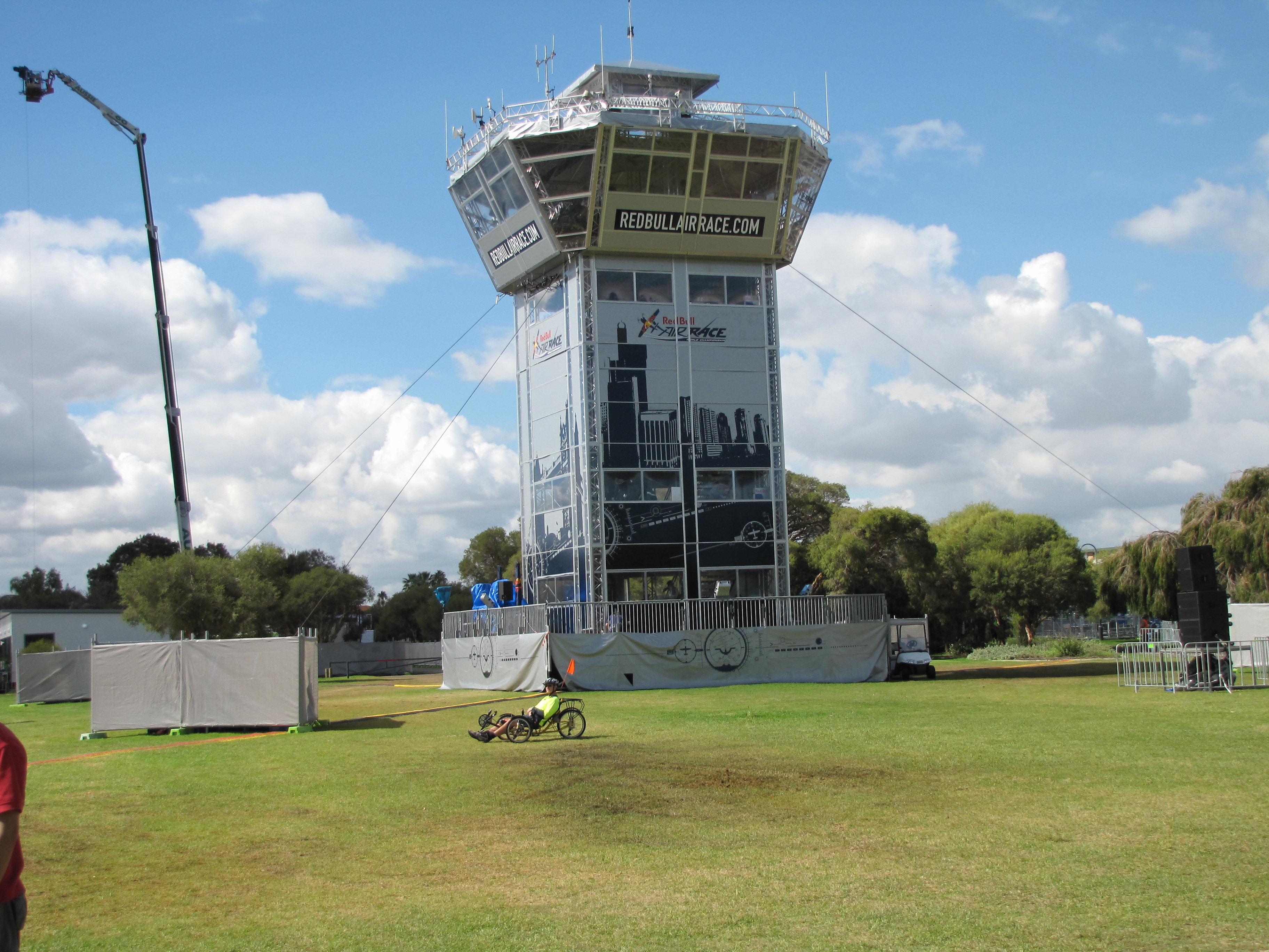 The Perth Red Bull Air Race was not held in 2009 but commenced again in April 2010. Once again Langley Park was converted to an airstrip and the larger crowd of spectators were to be found in Sir James Mitchell Park on the opposite bank of the Swan River. The temporary control tower is set up in Sir James Mitchell Park for the duration of the event.